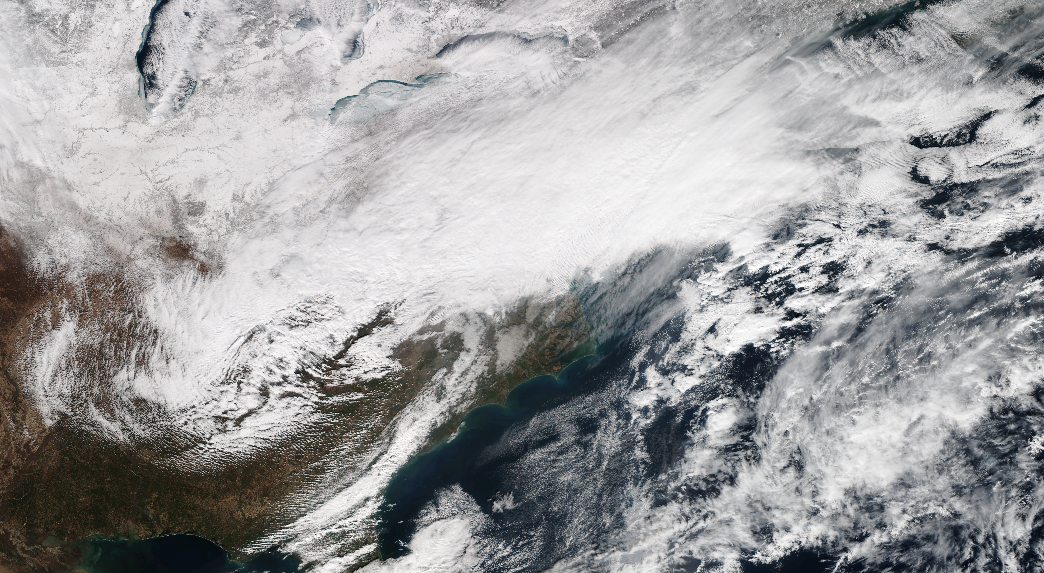 The extratropical cyclone developing near the Mid-Atlantic States on January 21, 2014.